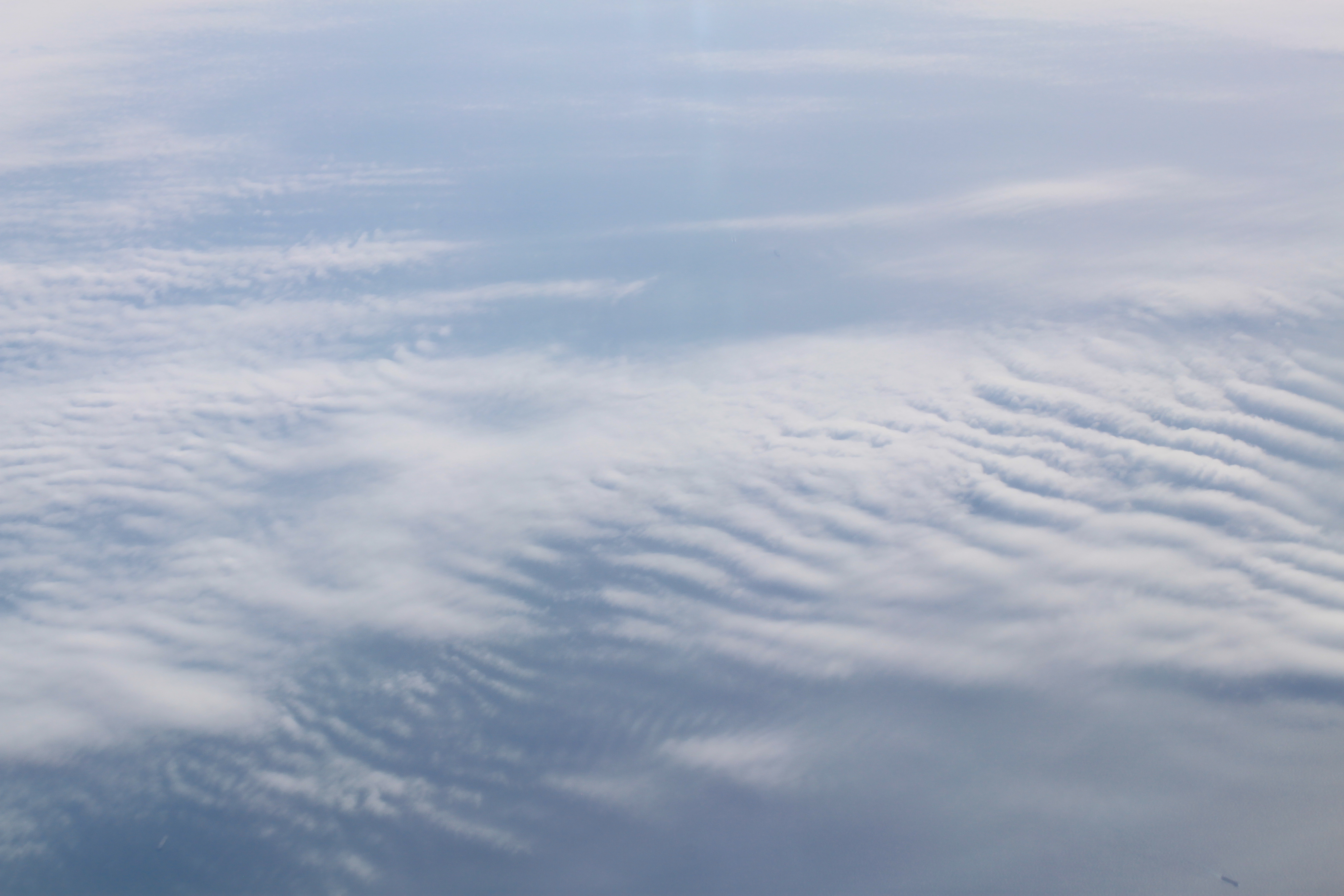 Undulatus clouds, viewed from an aircraft